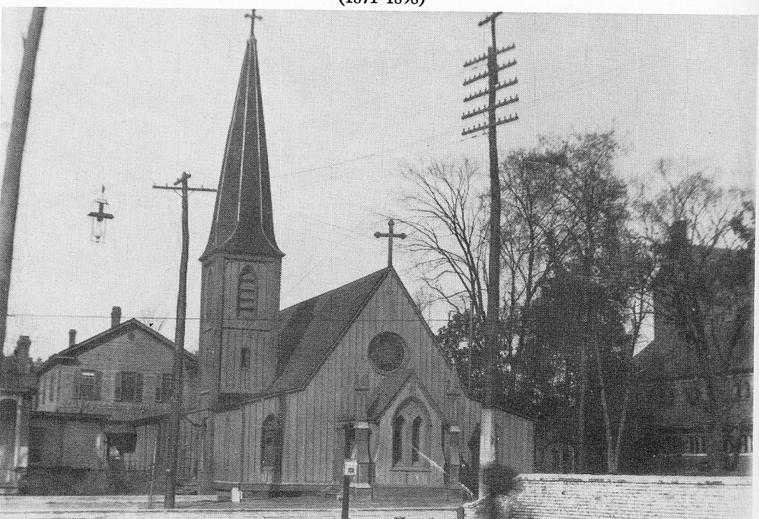 Looking across Poplar Ave. to the original St. Mary's Episcopal Cathedral in Memphis.